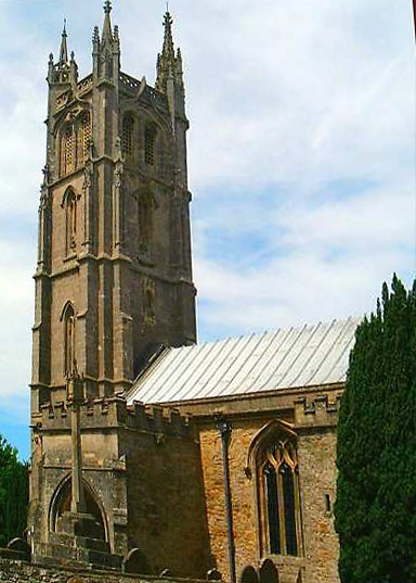 West tower and south porch of St Andrew's parish church, Church Lane, Backwell, North Somerset, seen from the southeast